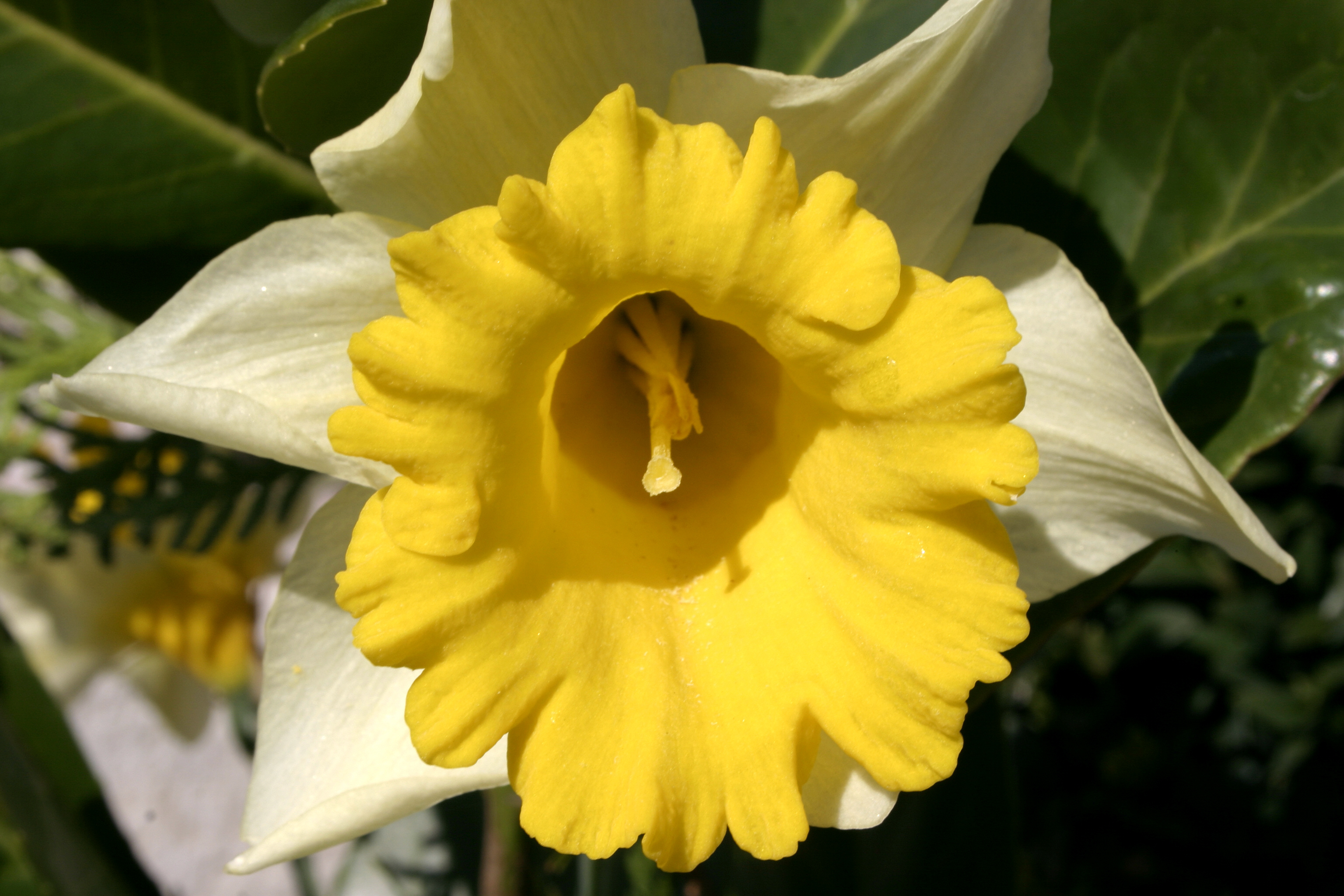 Narcissus